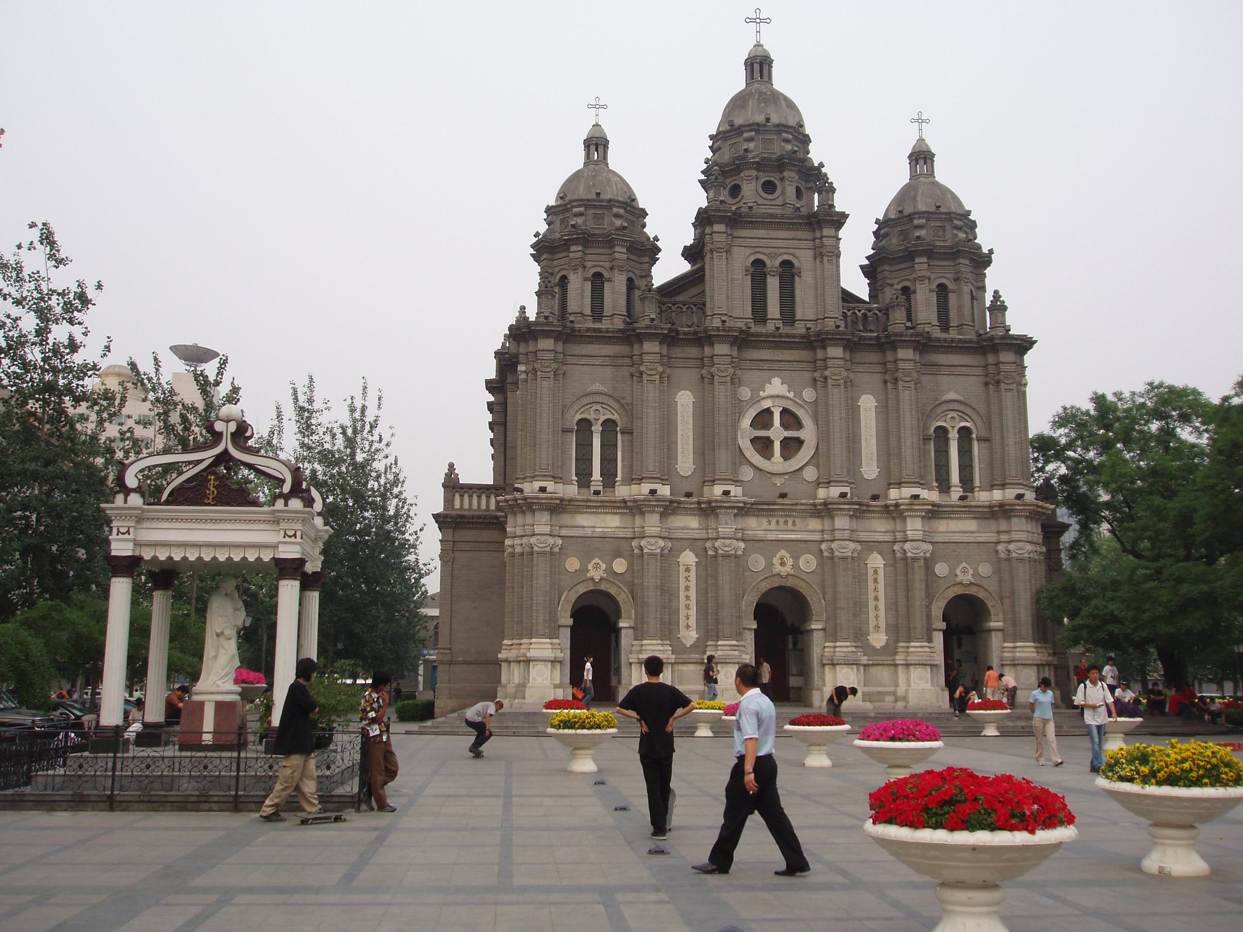 Wangfujing cathedral (also called East Church, St. Joseph's Cathedral or Dong Tang) in Beijing.